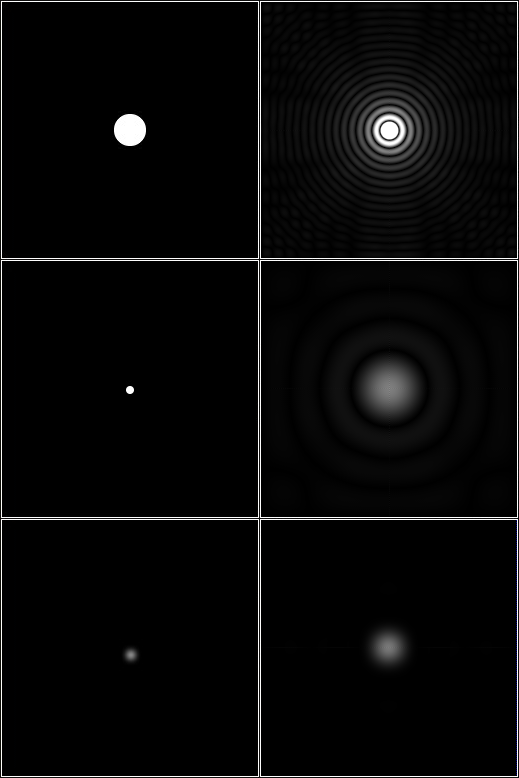 2D FFT. Left: aperture. Right: calculated Fourier Transformation (FFT) = calculated diffraction pattern.